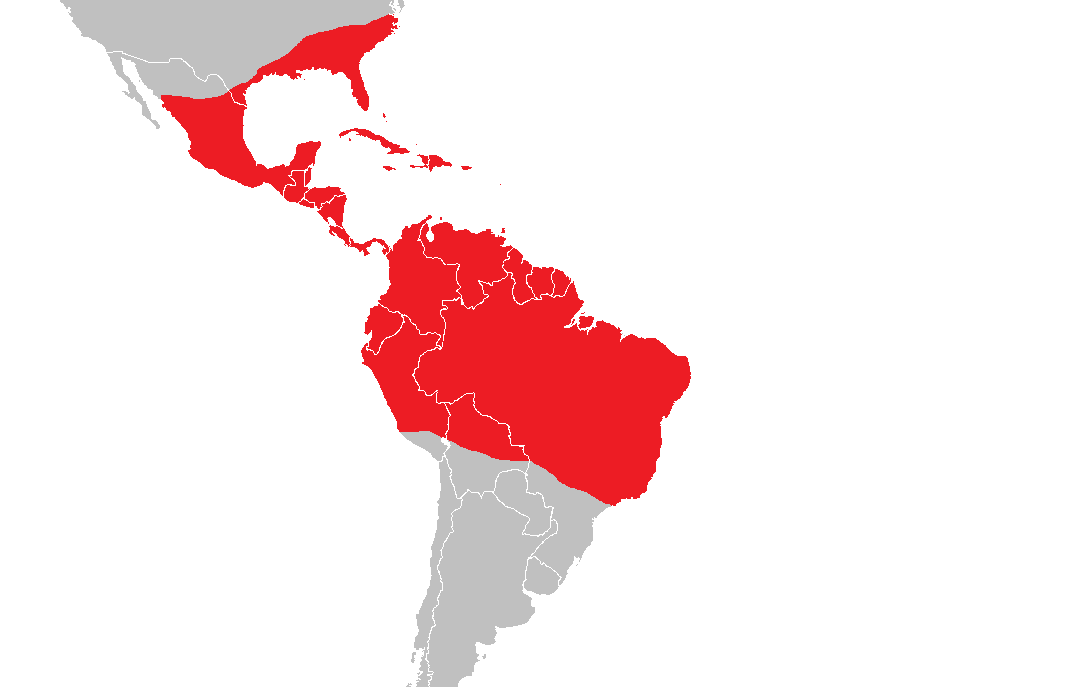 A blank Robinson-projection map of the Americas centered at the 100W longitude line. Detailed SVG map with grouping enabled to connect all non-contiguous parts of a country's territory for easy colouring. Smaller countries can also be represented by larger circles to show their data easier. A thorough description of use and other instructions relating to can be found on the instruction page